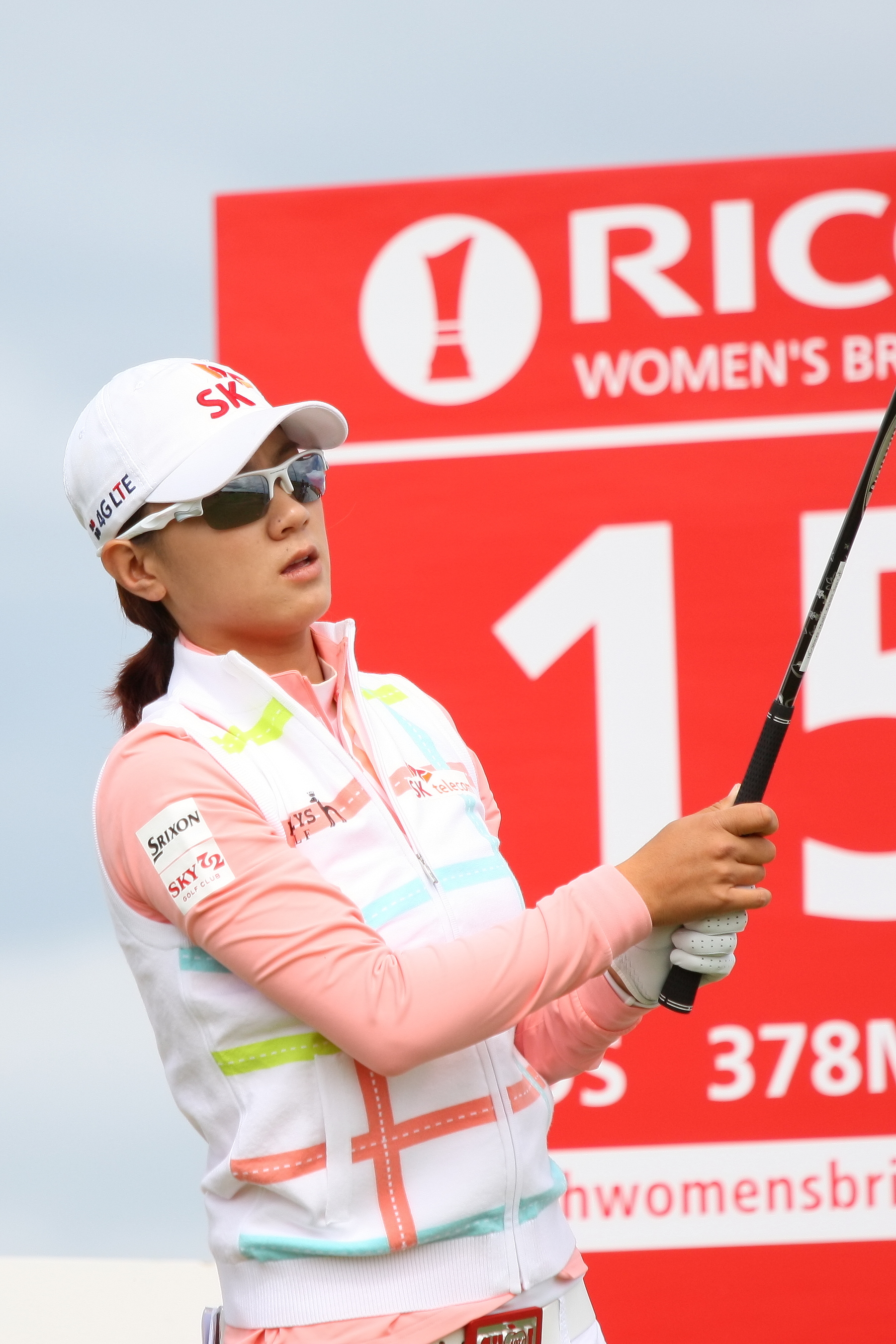 ST ANDREWS, SCOTLAND – JULY 31: Choi Na Yeon of South Korea watches her tee shot on the 15th hole during last practice round before 2013 Ricoh Women's British Open held at St Andrews Old Course on July 31, 2013 in St Andrews, Scotland. (Photo by Wojciech Migda)